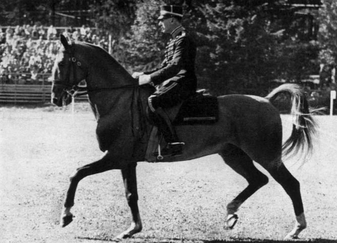 Henri Saint Cyr and Master Rufus at the 1952 Summer Olympics in Helsinki.